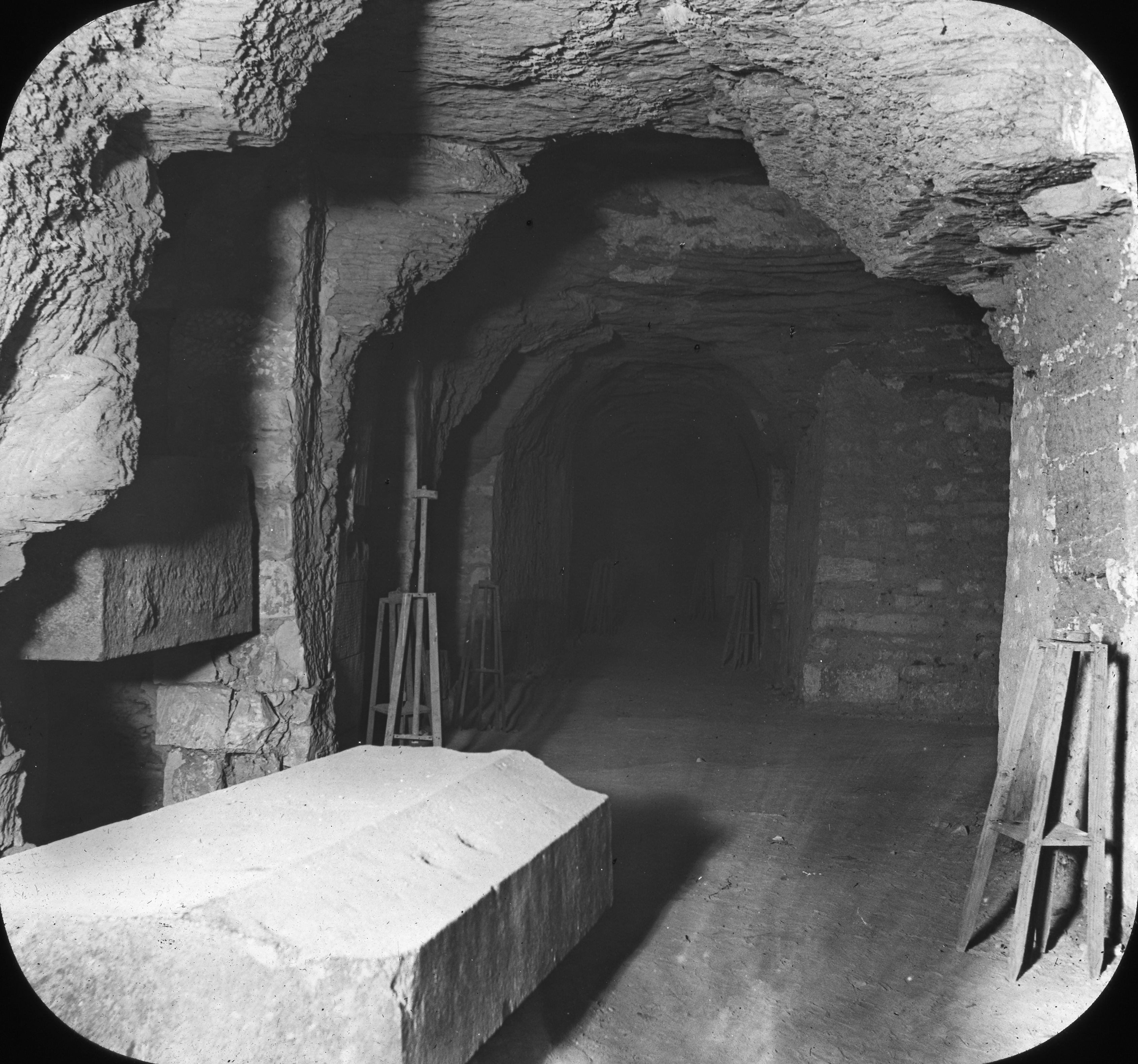 Lantern Slide Collection: Views, Objects: Egypt. Sakkara [selected images]. View 13: Egypt - Apis Tombs, passage showing Sarcophagi Recess, Sakkara., n.d., T. H. McAllister, Manufacturing. 49 Nassau Street, New York. Brooklyn Museum Archives (S10.08 Sakkara, image 9639).